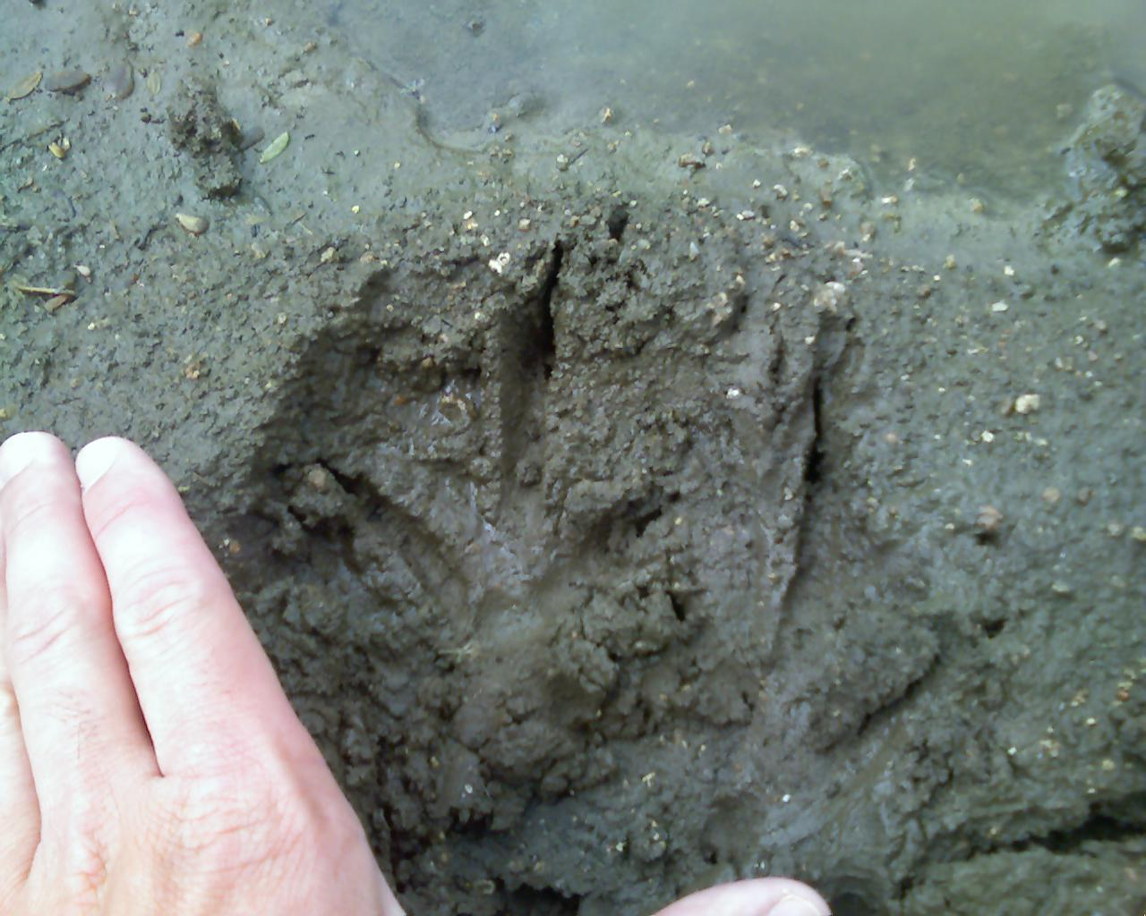 Turkey Vulture tracks in mud. Note the increased weight towards the front toes as the bird dipped its head down to take a drink.